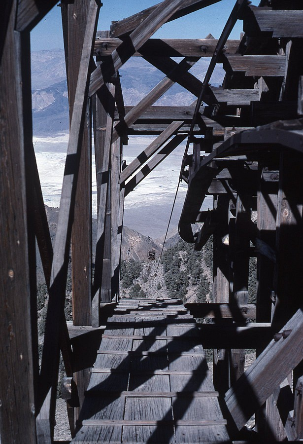 View through Salt Tram summit station looking towards Saline Valley